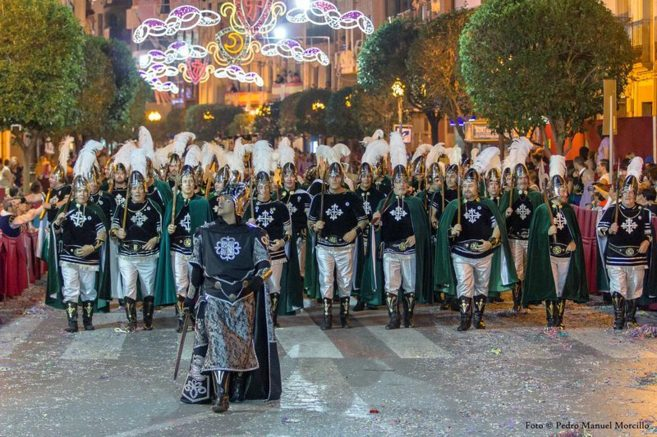 Escuadra de la Comparsa de Cristianos de Villena